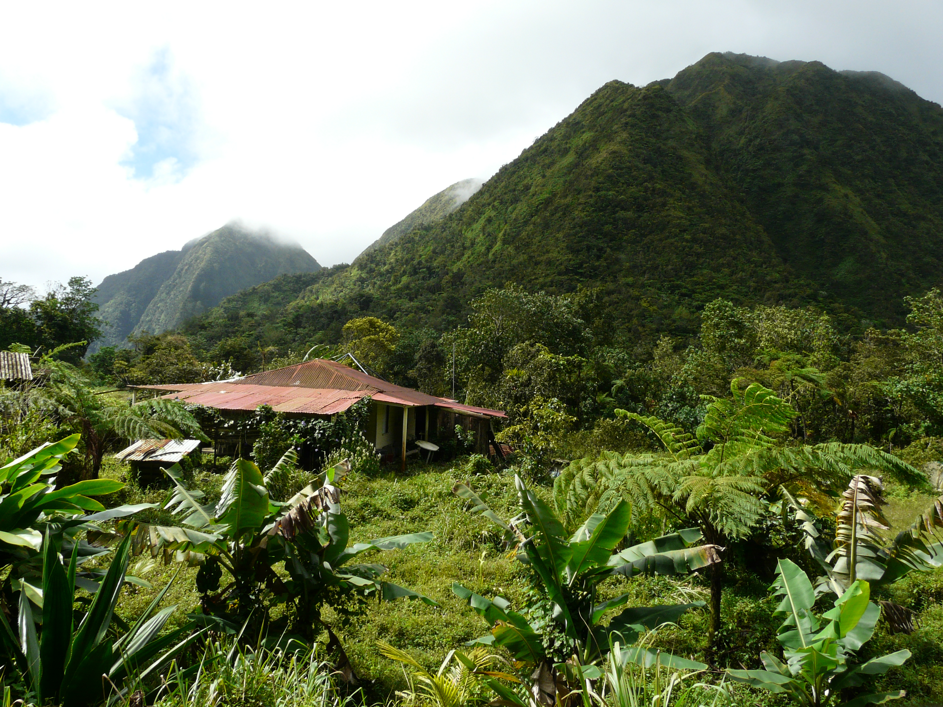 Carbet Mountains as seen from Plateau du Boucher, Martinique. From right to left: Piton Boucher, Piton Lacroix and Piton de l'Alma